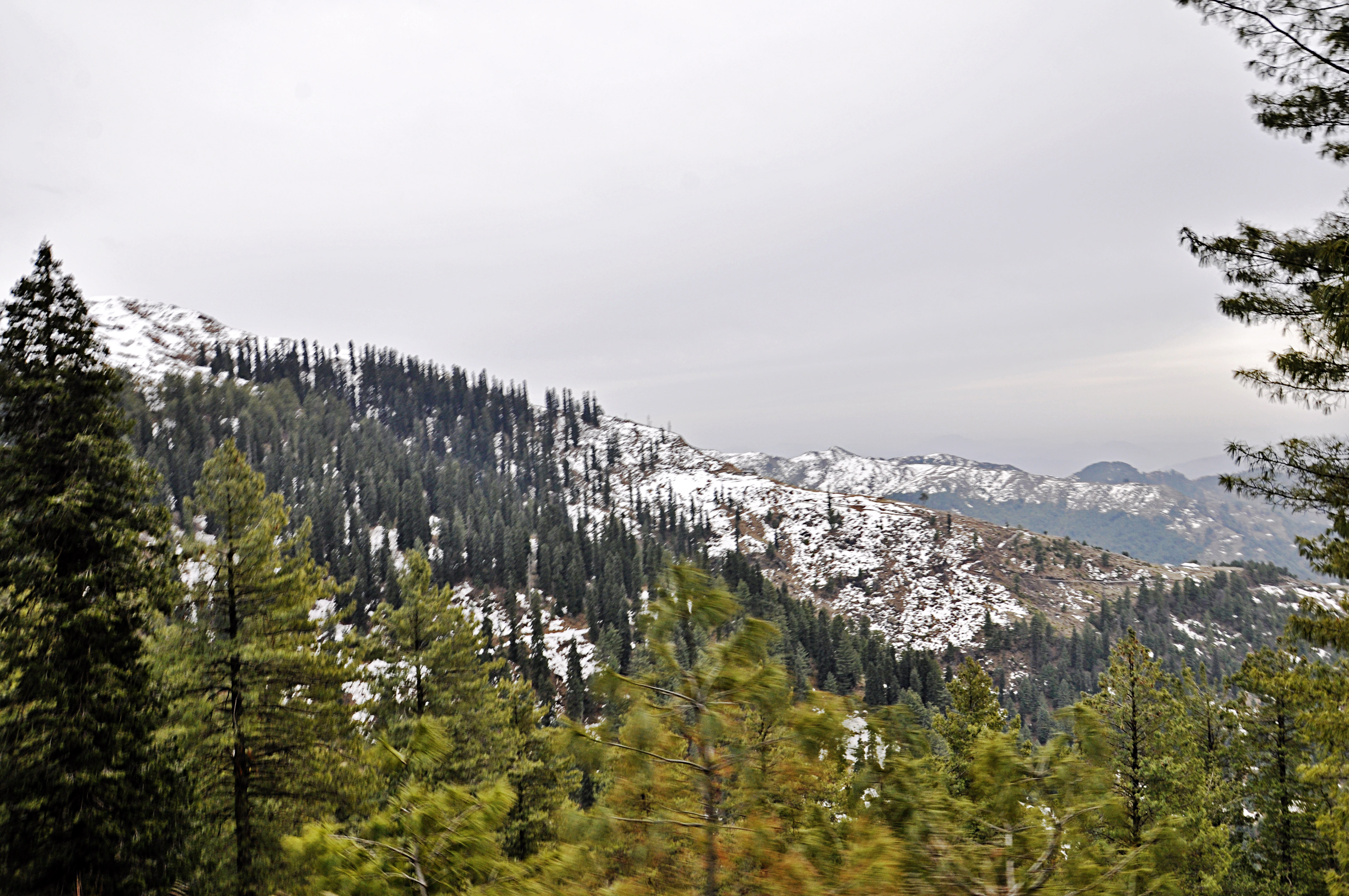 The Toli pir meadows turning white in winters with snow blanket